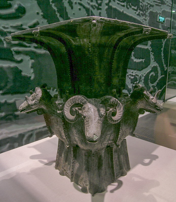 Square zun with four sheep. Late period of the Shang Dynasty (13th century B.C ~ 10th century B.C). Collection of the National Museum of China. Take photo in Exhibition of Ancient Chinese Invention Artifacts, China Science and Technology Museum in Beijing on 2008. Photo Permited.